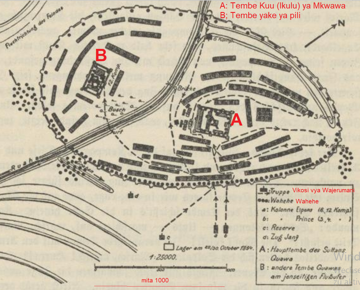 a Map of Iringa-Kalenga, capital of Hehe Sultan Mkwawa, at the time of its destruction by German forces under Governor von Scheele 1894 Kiswahili: Ramani ya Kalenga, iliyoita wakati ule Iringa (tofuti na Iringa mpya ya leo), iliyokuwa mji mkuu wa Mtemi Mkwawa. Ilichorwa na Wajerumani waliovamia na kubomo mji mnamo mwaka 1897